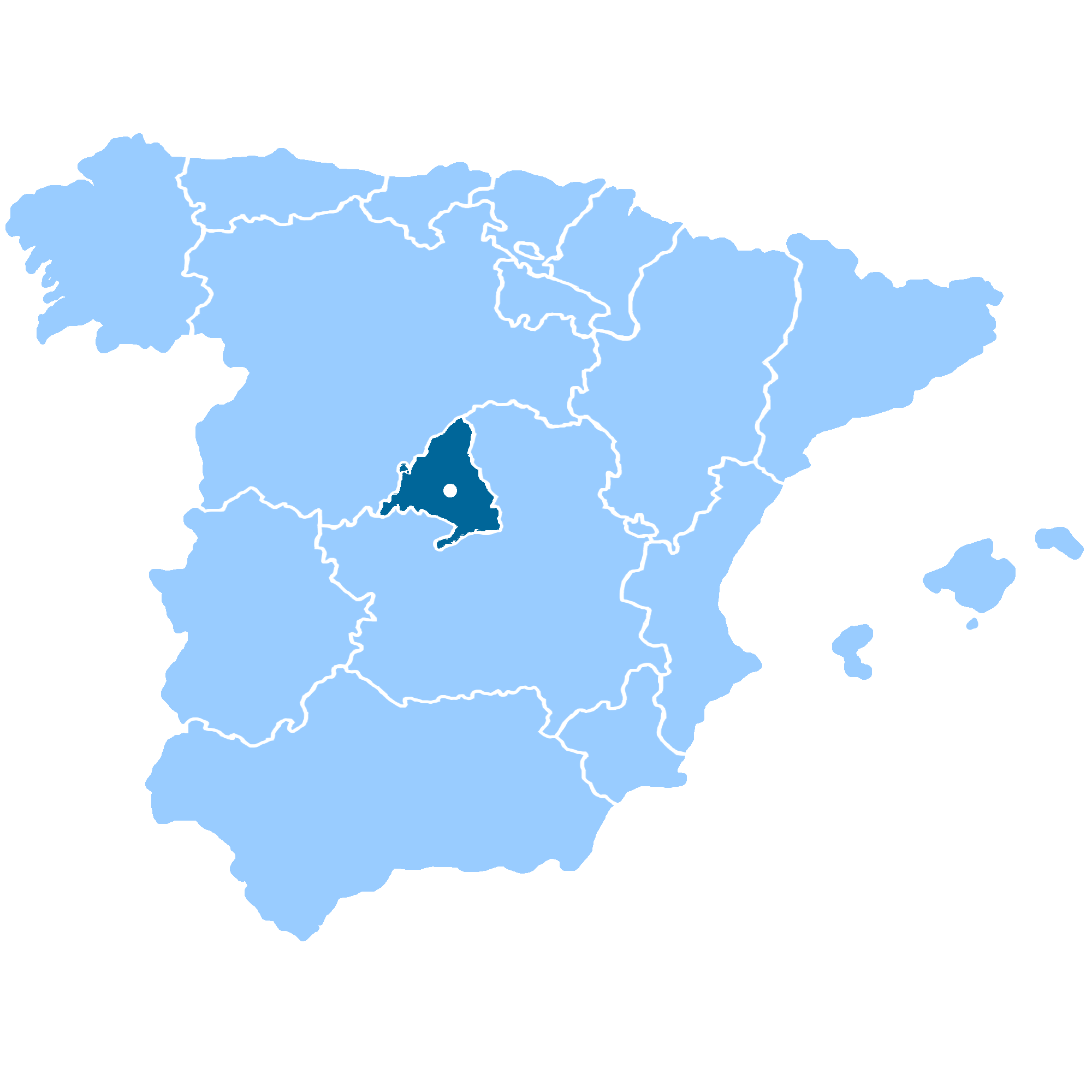 Location of Madrid Community within Spain. (Capital also shown.)